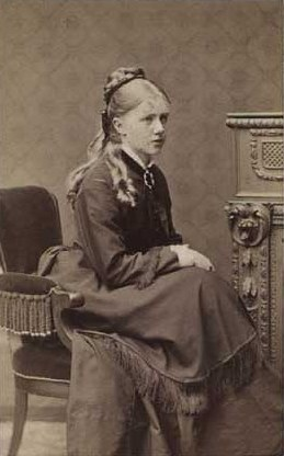 Augusta Charlotte Dorthea Læssøe (1851-1926), Danish painter